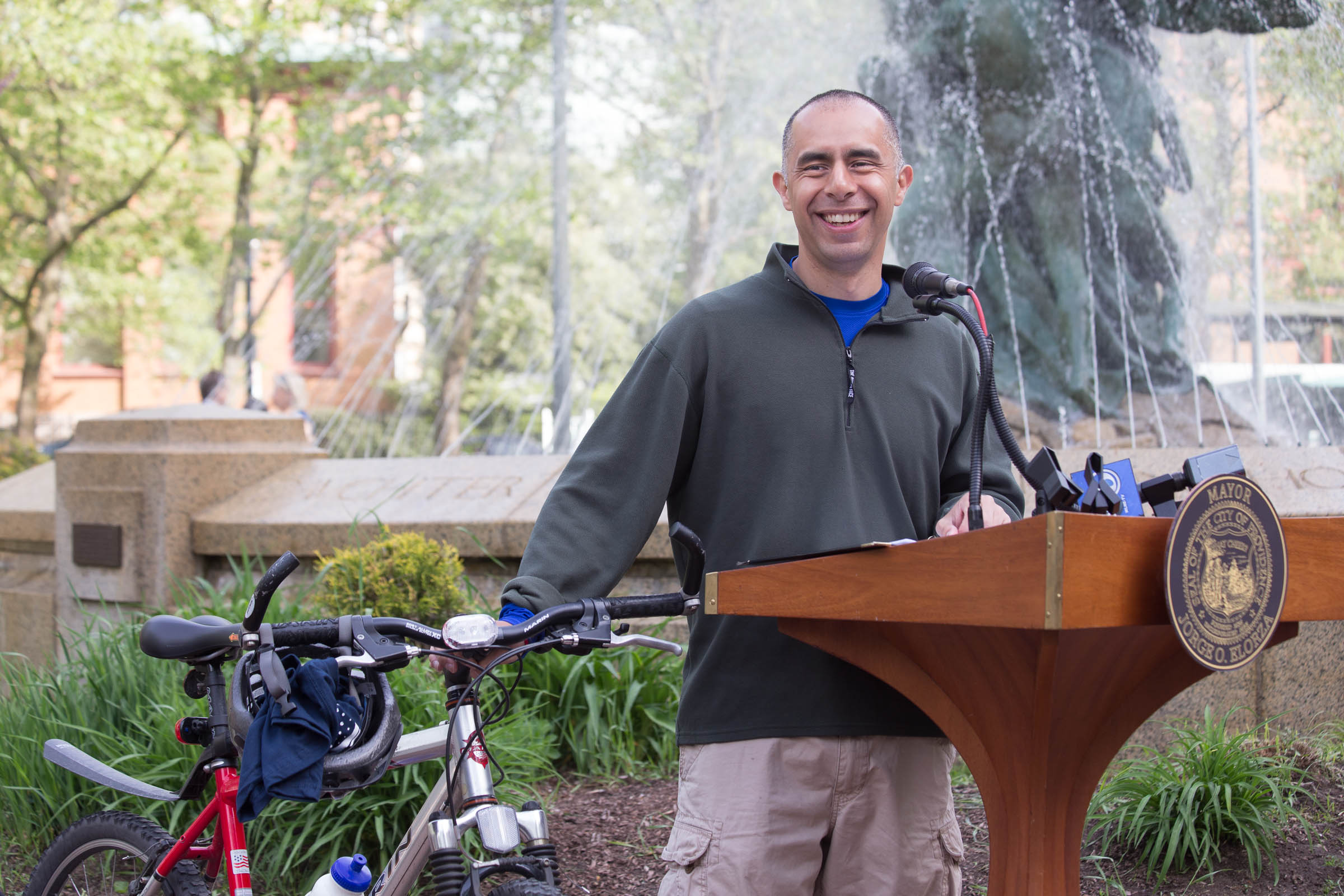 Providence mayor Jorge Elorza is an avid cyclist. He is pictured here in front of Bajnotti Fountain, at a Bike to Work Day event in Burnside Park, May 15, 2015.